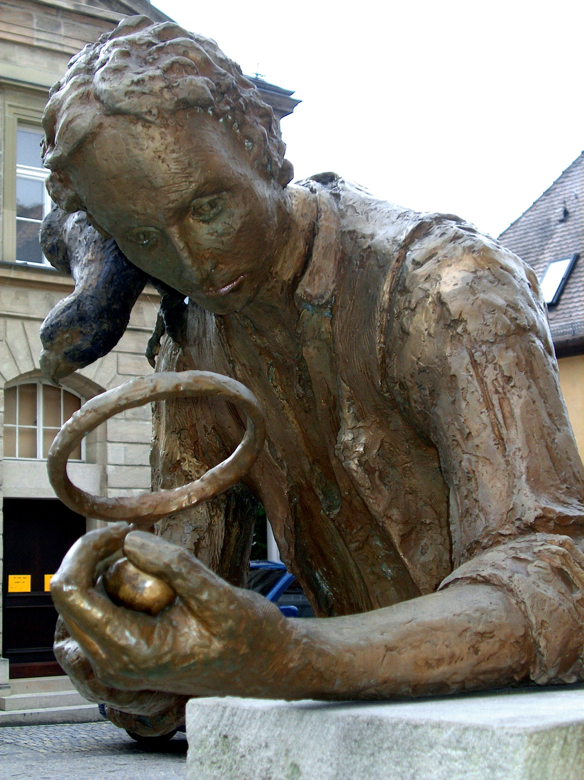 Monument on the market square in Höchstadt an der Aisch, Bavaria (Germany), honoring Johann Baptist Ritter von Spix. It was created by the German artist Helmut Kunkel and was erected in 2003. On Spix's shoulder a Spix's macaw (named after the scientist) is sitting.